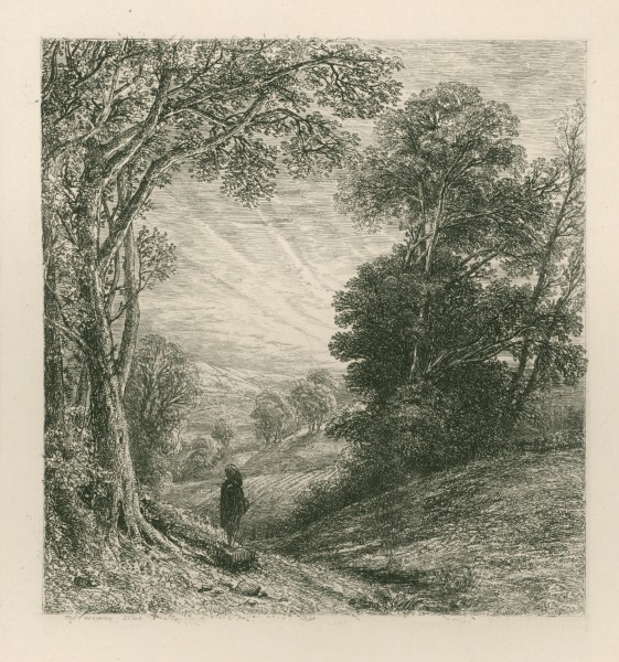 The Evening Walk, etching by Thomas Creswick (1842). Published by The Etching Club in 1857.